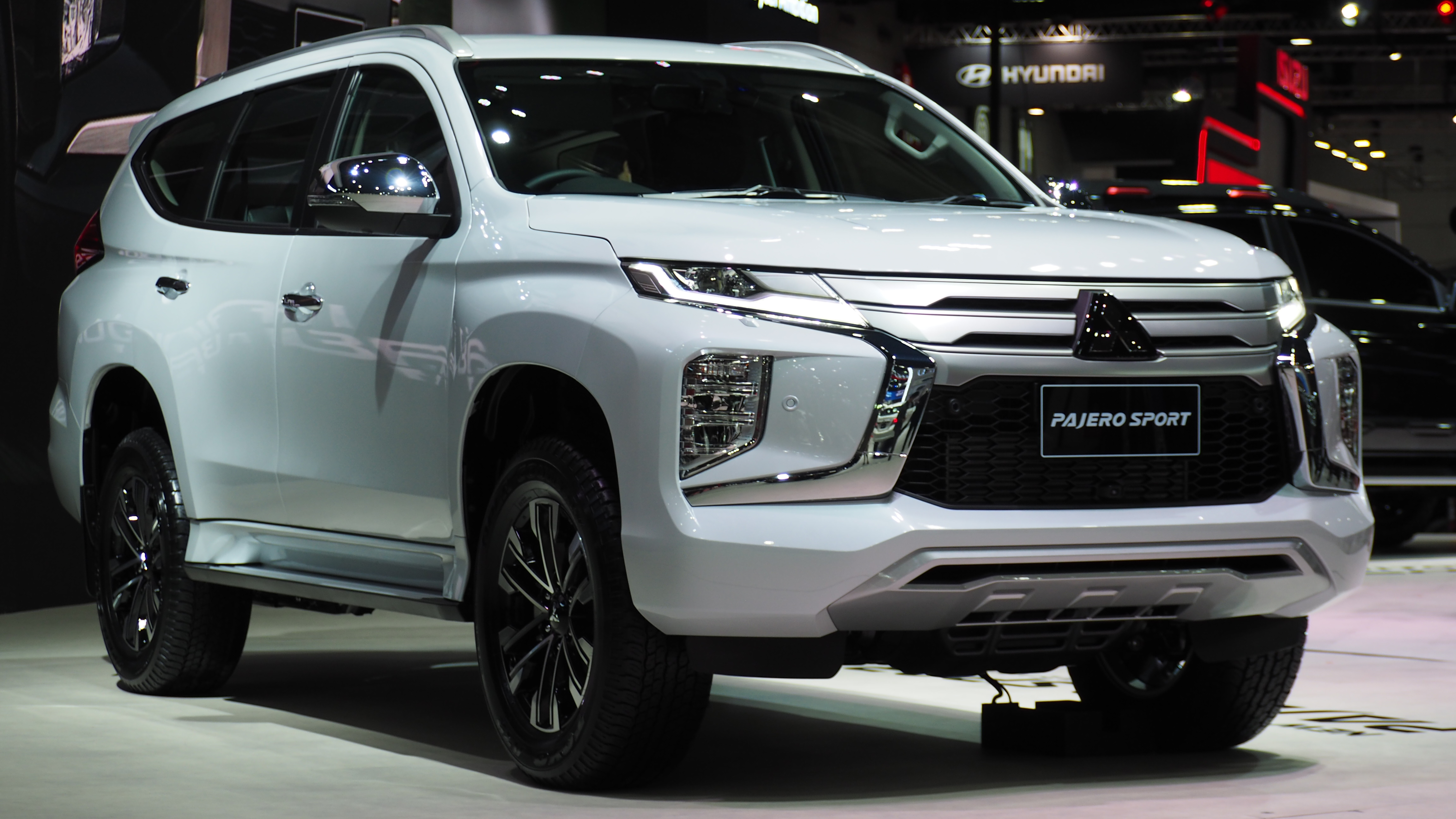 2019 Mitsubishi Pajero Sport GT-Premium 4WD in BITEC, Bangna, Bangkok, Thailand.